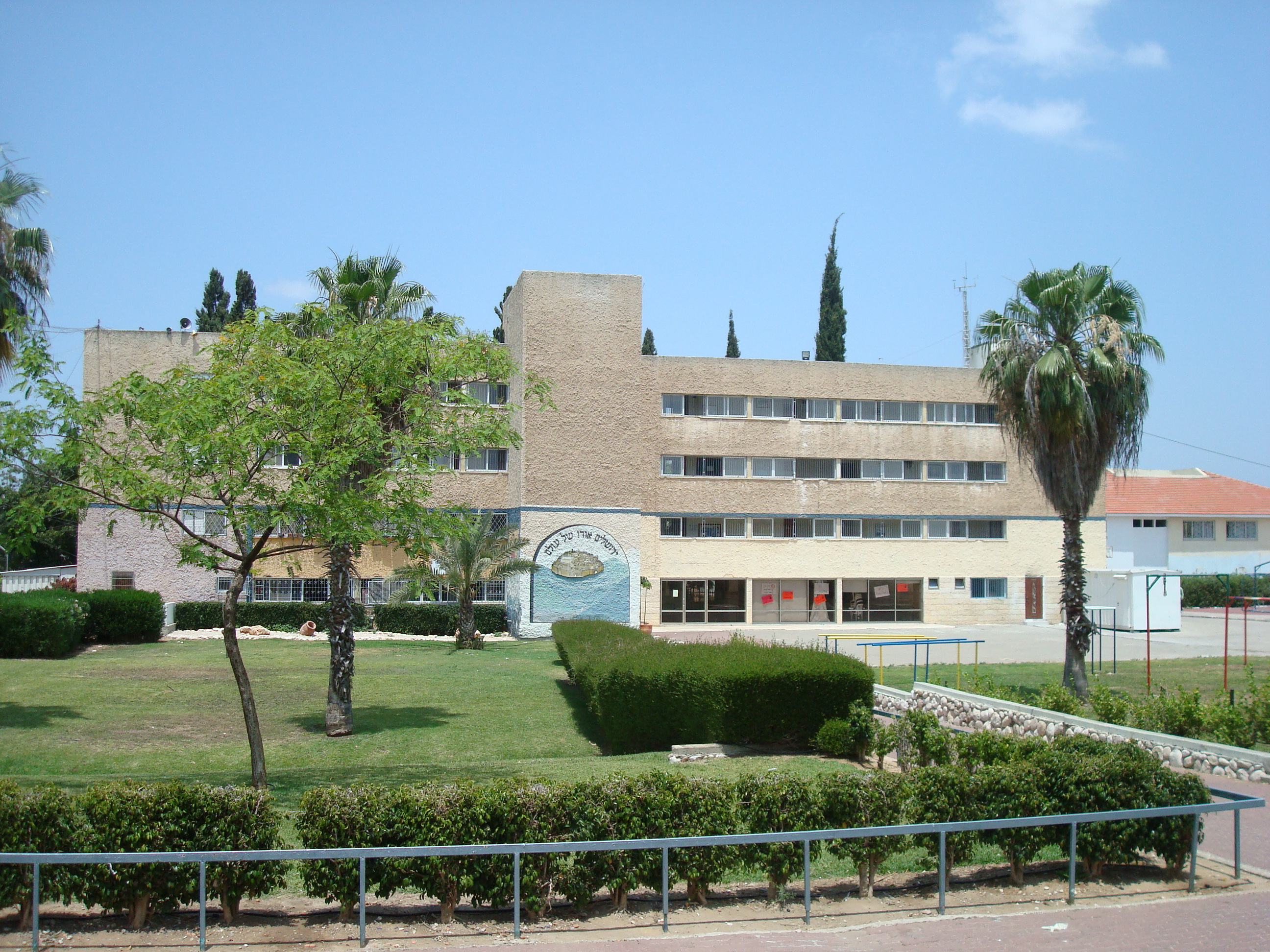 Architecture of Israel